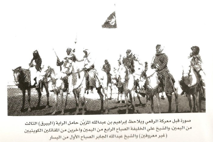 Defense and security force cavalry and infantry; the army of Al-Kout Fortress (today's Kuwait); before the Battle of Al-Regeai in 1928 featuring Sheikh Ali Khalifa Al-Abdullah II Al-Sabah (4th from the right), Ibrahim Abdullah Al-Muzayn (3rd from the right) bearing the red flag of Kuwait, unknown kuwaiti combatants and Sheikh Abdullah Jaber Al-Abdullah II Al-Sabah[1] (1st from the left) (English Translation).